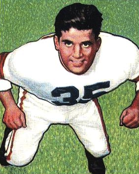 American football guard and linebacker Alex Agase pictured on a Bowman 1950 football card.